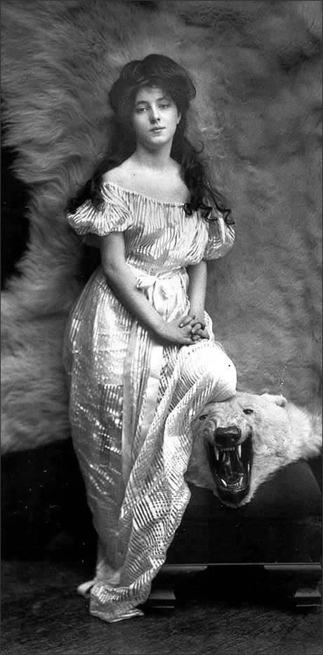 Evelyn Nesbit (1901 photograph - large)Blasted if I know how I found the article when I can't even get the name right. This is a photograph of Evelyn Nesbit, taken in 1901 by Rudolf Eickemeyer, Jr.